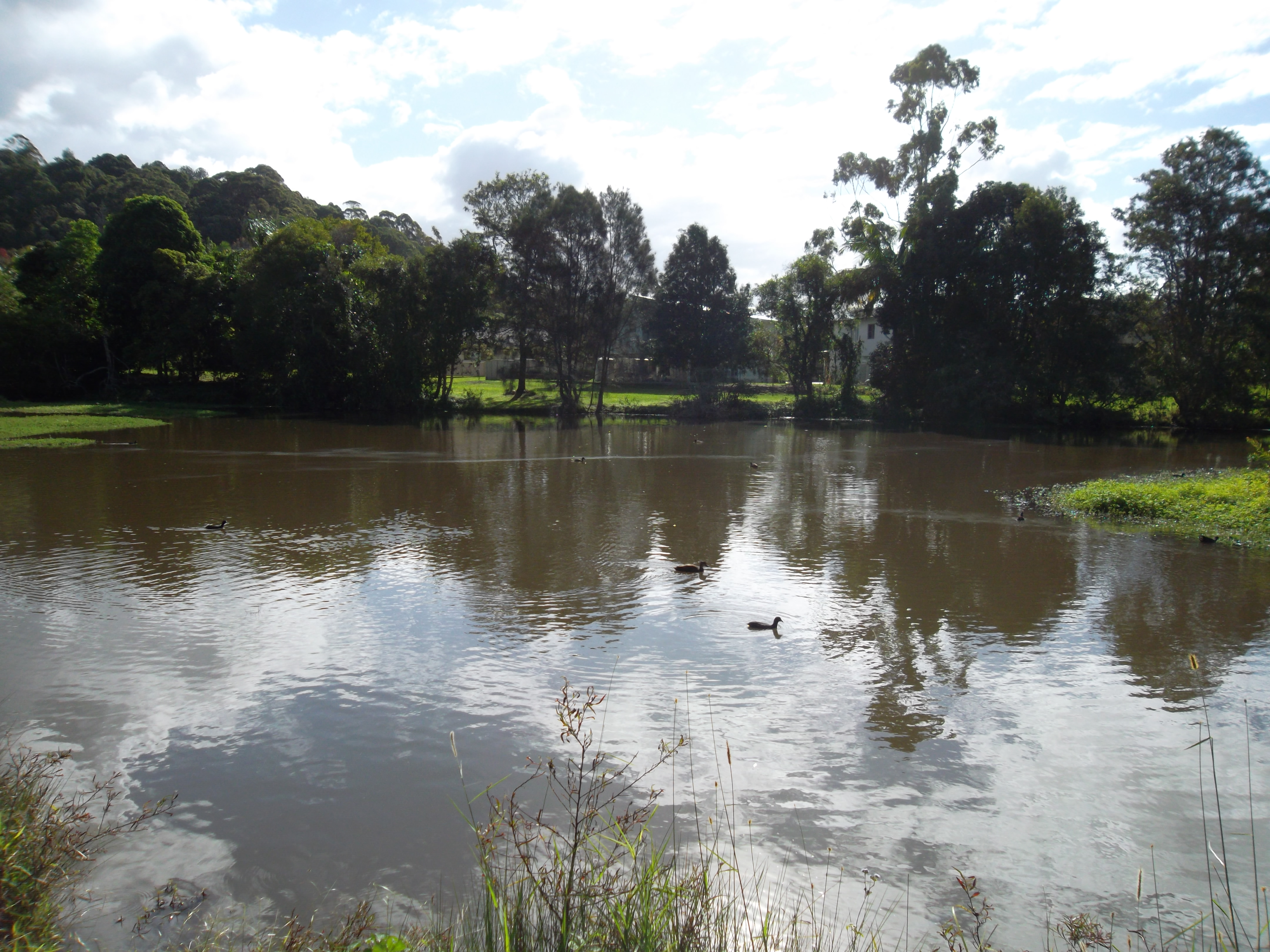 Waterlily Park, a nature reserve in central Ocean Shores, NSW. The park provides habitat for several species of waterbirds.